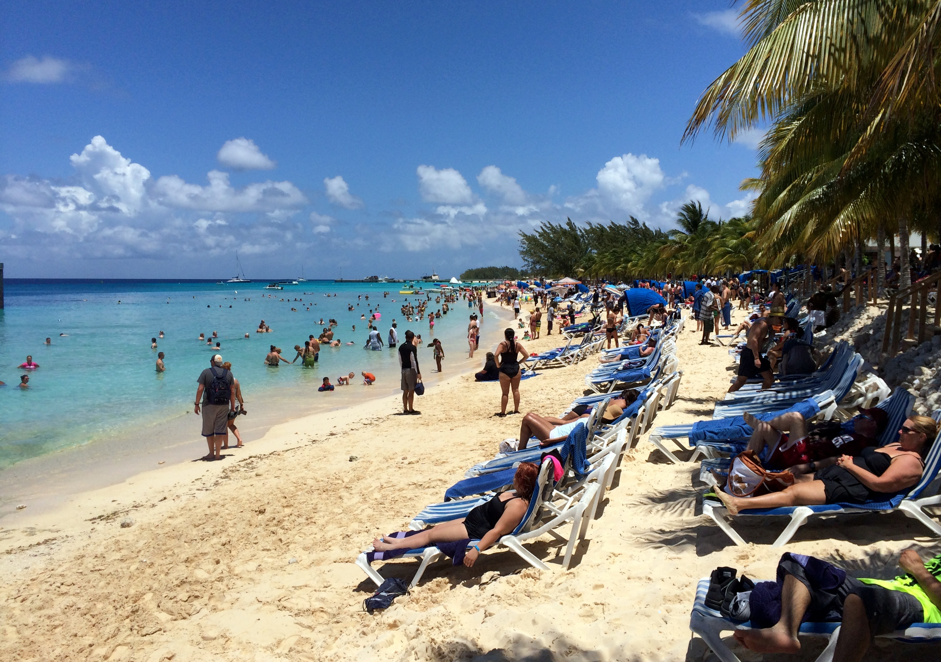 Turks and Caicos Islands - Grand Turk - Beach